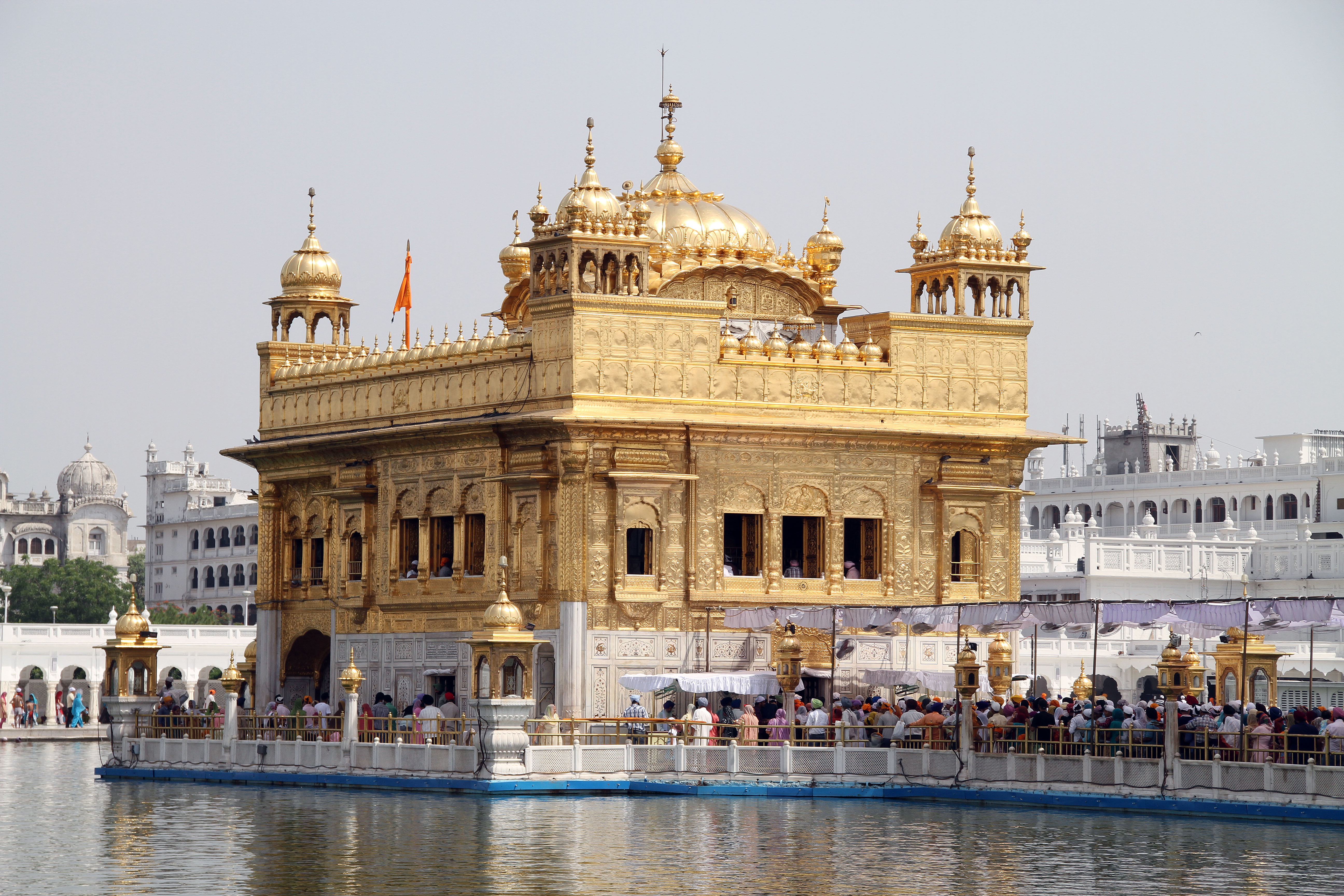 Hamandir Sahib or Darbar Sahib (also known as the Golden Temple). The holiest shrine in Sikhism located in the city of Amritsar, India.